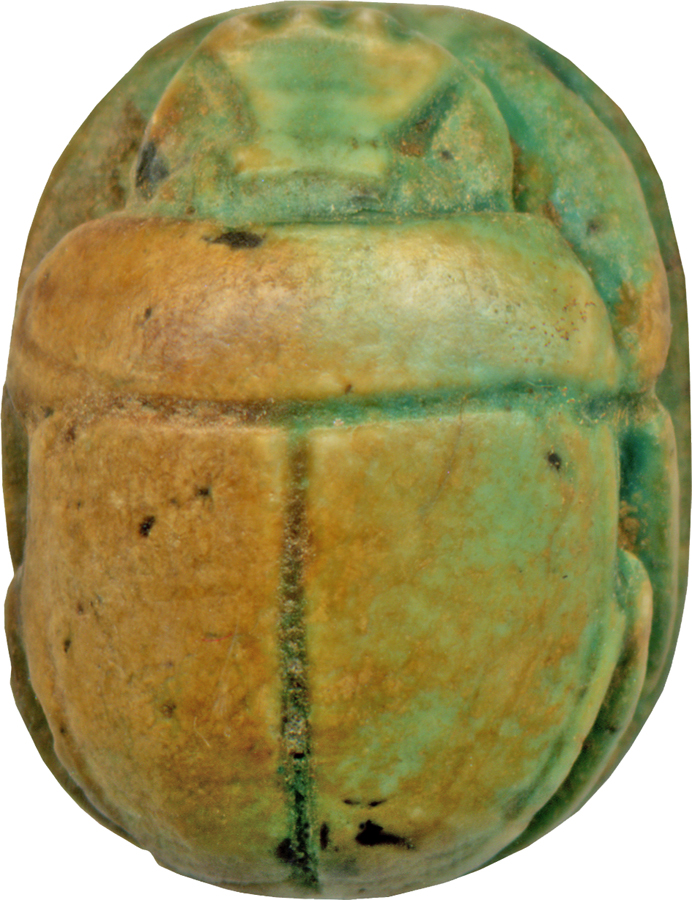 This scarab has a flat underside and an inscription on the bottom. The piece is incised with sunk relief details and is glazed. The design of the back is very detailed, with deeply incised thick lines and careful workmanship. This piece functioned as an individualized amulet and was originally mounted or threaded. The amulet should secure the divine status for the king (Thutmosis III) and provide a private owner with his royal patronage.